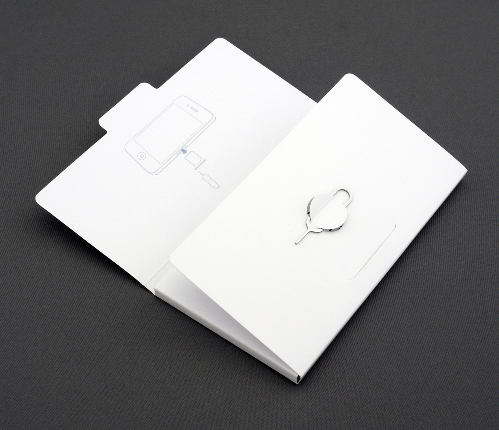 The documentation that comes with the iPhone 4S.